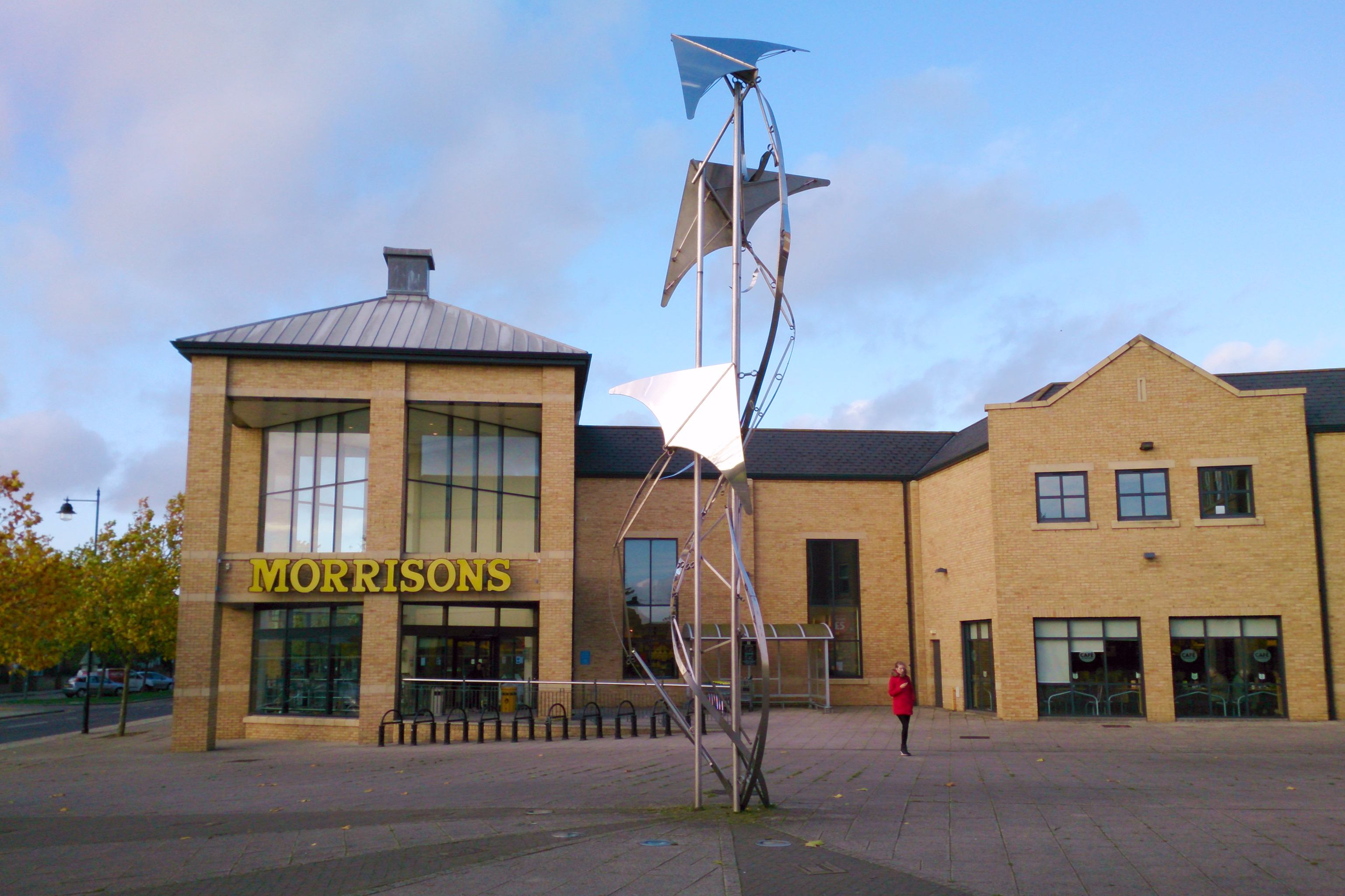 Cambourne Morrisons supermarket and Richard Thornton flight-themed sculpture commemorating the area's connections with the Royal Air Force and World War 2 aeroplane production.